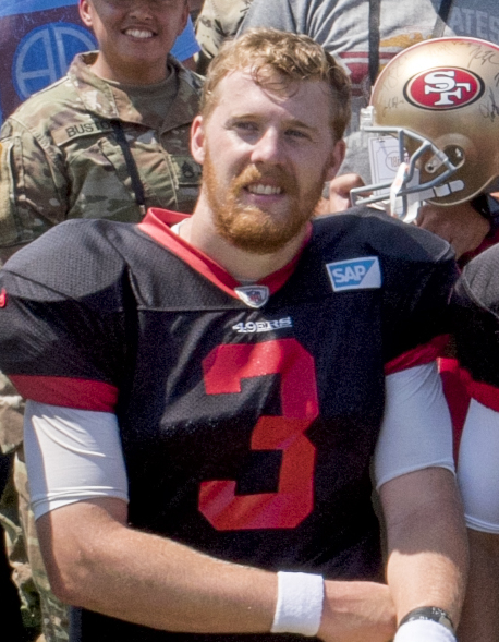 The 49ers organization invited military service members from the local area to observe their training camp during a military appreciation day at their training facility in Santa Clara Calif., Aug. 12, 2018.